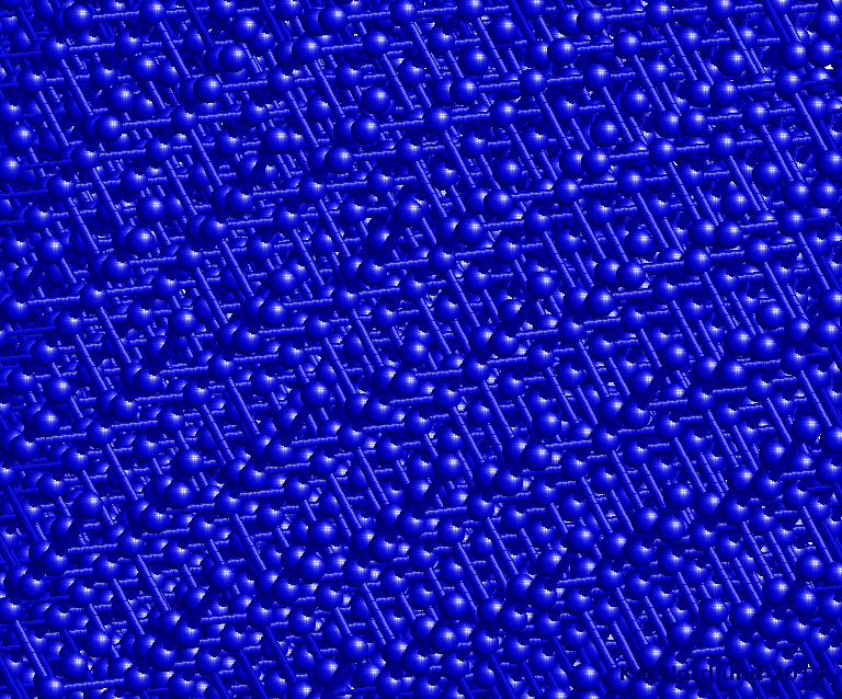 15 x 10 x 30 unit cells of Si viewed in a random direction